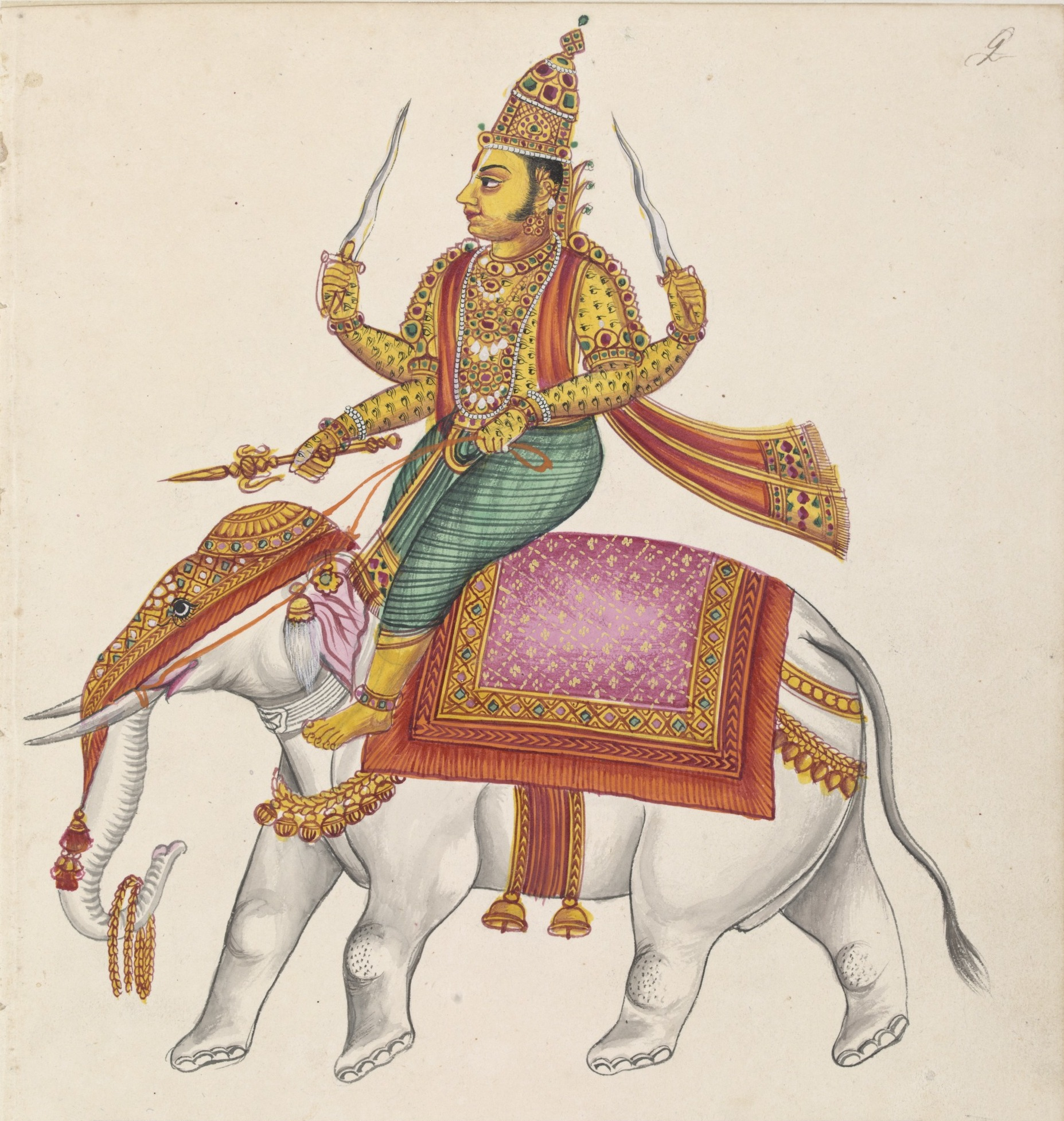 "Indra, the god of storms and guardian of the east, riding on his white elephant Airavata. He is yellow-skinned and four-armed. He holds two swords with wavy blades. His upper body is covered with eyes, jewellery and a red scarf. The loin-cloth is green. The elephant is richly caparisoned, and carries a noose in its trunk."